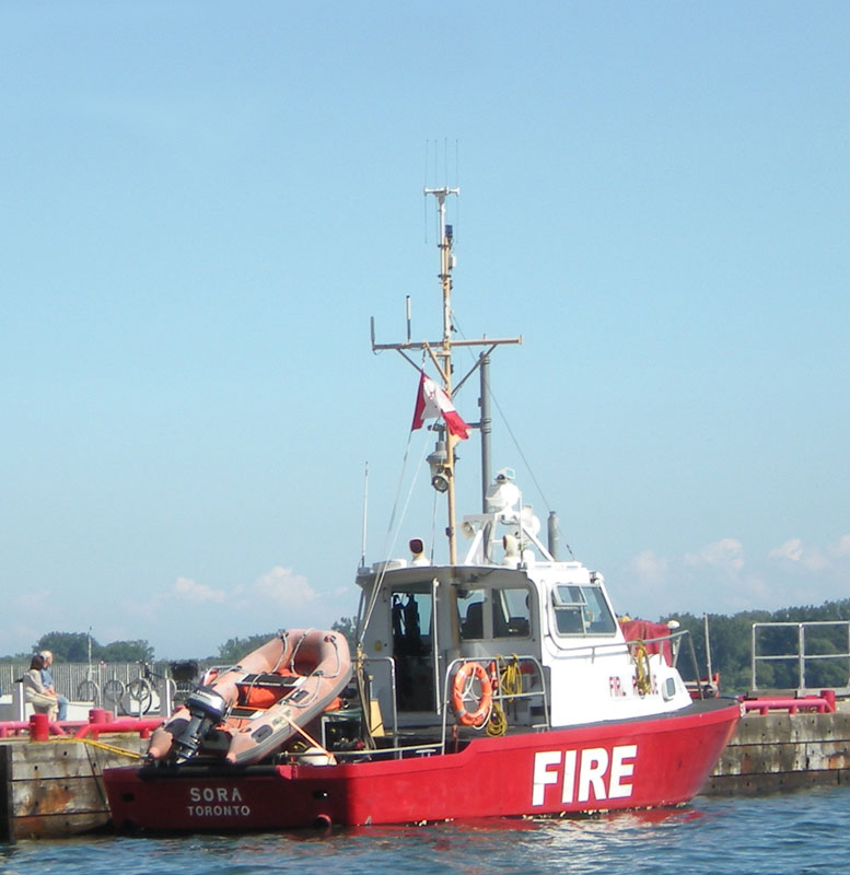 CCGS Sora, a fireboat of the Toronto Fire Services. The boat is docked at 339 Queen's Quay West, Toronto, Canada. Fire Station #334.